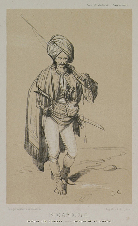 Emmanuel Simon Joseph Léon de Laborde. Voyage de l'Asie Mineure par Alexandre de Laborde, Becker, Hall, et L. de Laborde, rédigé et publié par Léon de Laborde, Paris, Firmin Didot, 1838.